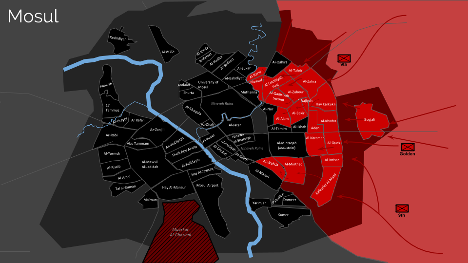 visualization of the Battle of Mosul as of 7/Dec/2016